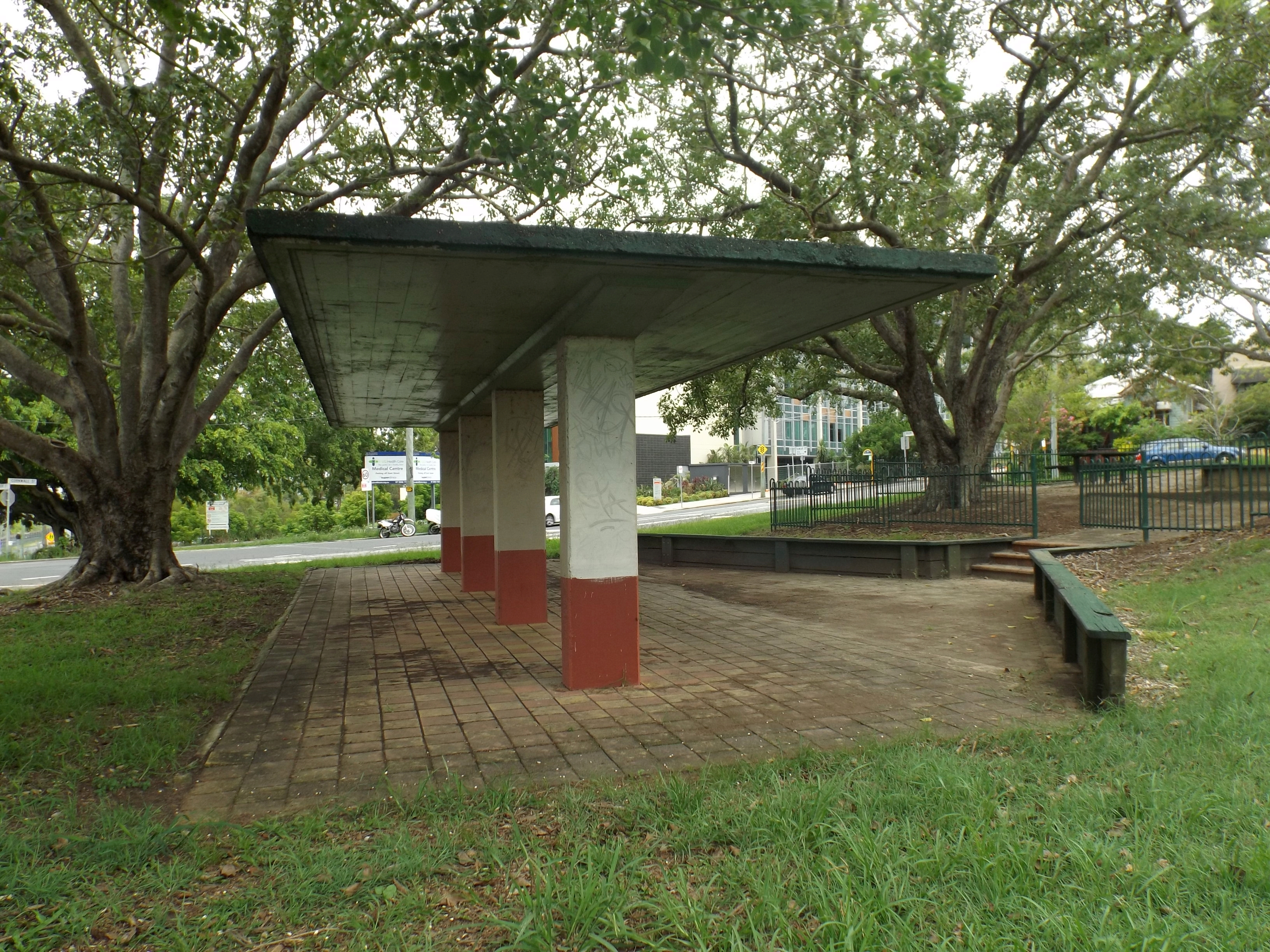 Photo of Hefferan Park Air Raid Shelter at Annerley, Brisbane, Queensland, Australia.